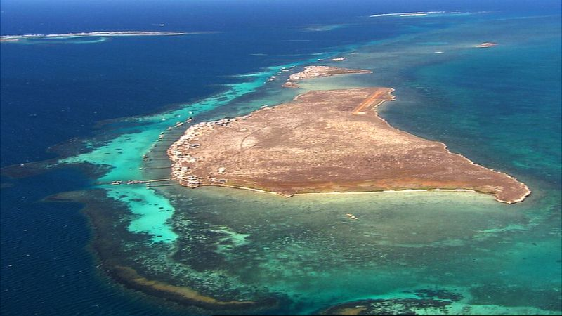 This is an aerial photograph of Rat Island in the Easter Group of the Houtman Abrolhos. The photograph was taken looking south-east from the north-west corner of the island.